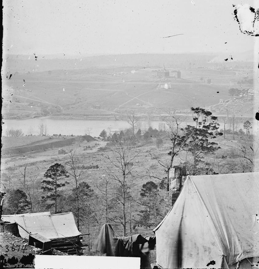 Photograph depicting a view of Knoxville, Tennessee as seen from the south bank of the Tennessee River, shot just after the end of the Siege of Knoxville. Photo taken by George N. Barnard, December 1863. Title: Knoxville, Tenn. Environs of Knoxville seen from south bank of Tennessee River; East Tennessee University in middle distance Summary: Photograph of the War in the West. These photographs are of the Siege of Knoxville, November-December 1863. The difficult strategic situation of the Federal armies after Chicamauga enabled Bragg to detach a force under Longstreet which aimed to drive Burnside out of East Tennessee and did shut him up in Knoxville, which he defended successfully. These views, taken after Longstreet's withdrawal on December 3, include one of Strawberry Plains, which was on his line of retreat. Here we have part of an army record; Barnard was photographer of the chief engineer's office, Military Division of the Mississippi, and his views were transmitted with the report of the chief engineer of Burnside's army, April 11, 1864.